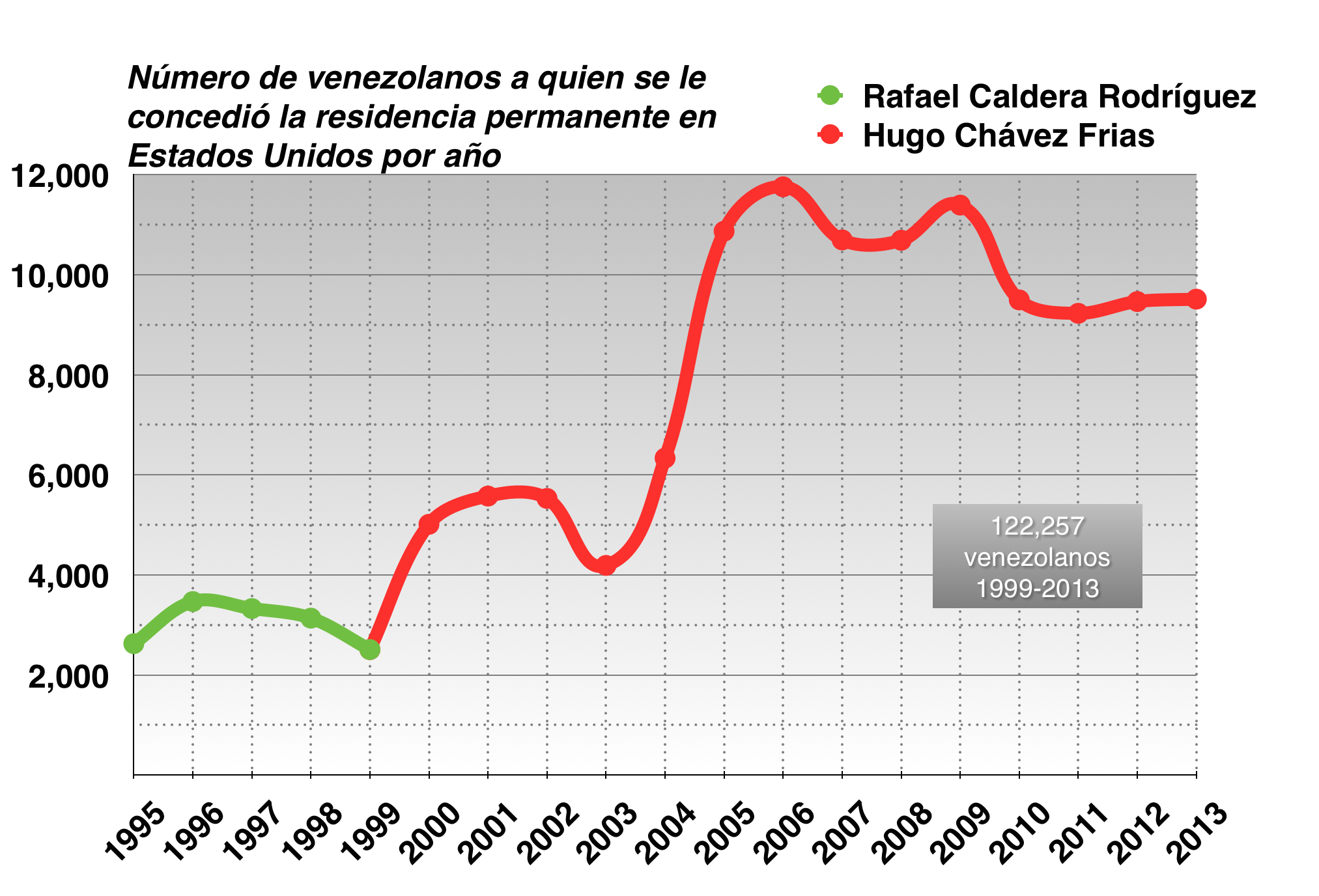 Número de venezolanos a quien se le concedió la residencia permanente en Estados Unidos por año.